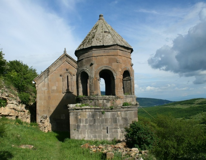 The Tiri Monastery is a 13th-centuryl Georgian church located in the historical province of Shida Kartli, now included in South Ossetia.